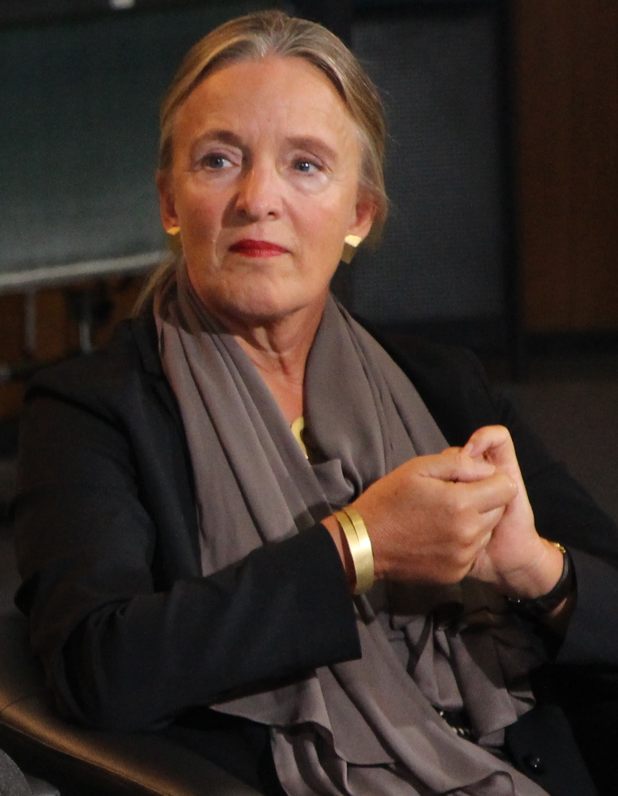 Historikertag 2014 in Göttingen. From left to right: ?, Christoph Classen (speaking), Jan Philipp Reemtsma, Ute Frevert